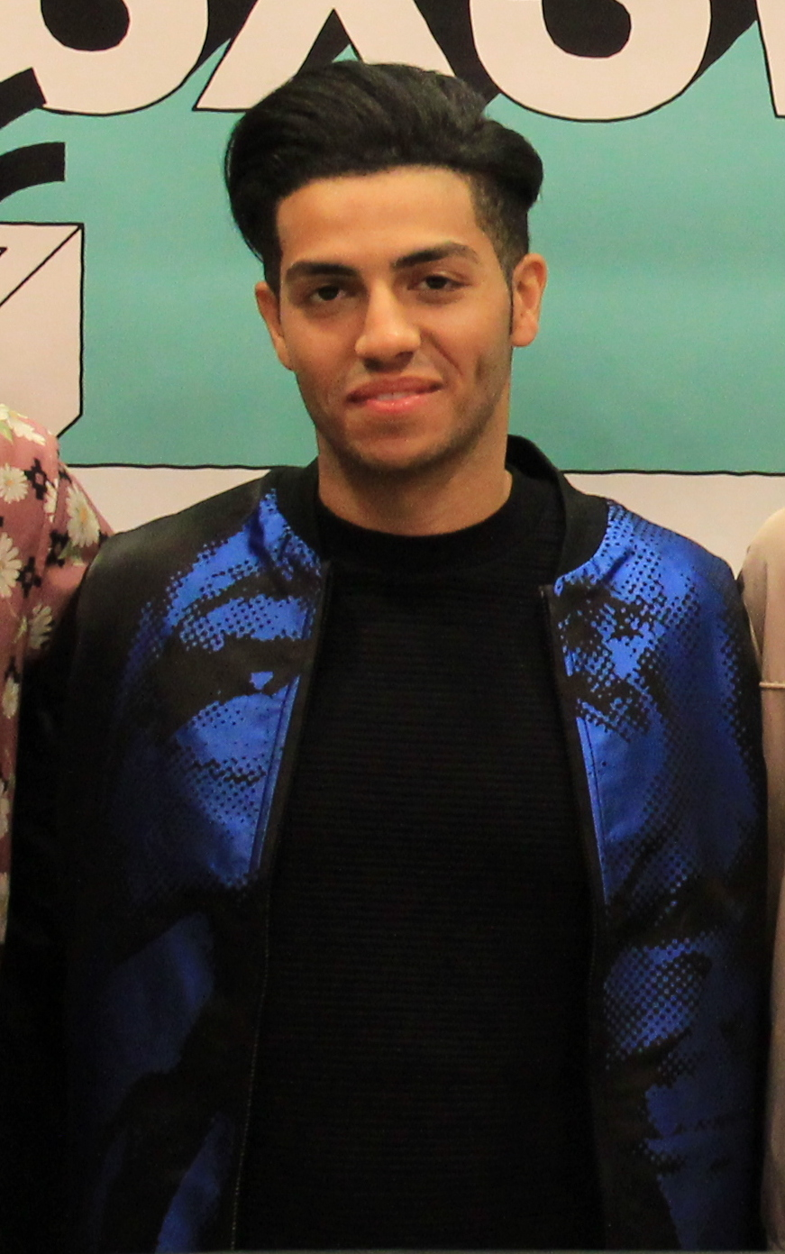 Ben Platt, Nina Dobrev, Mena Massoud, Scott Speedman, Ricky Tollman at SXSW during our round table interviews.